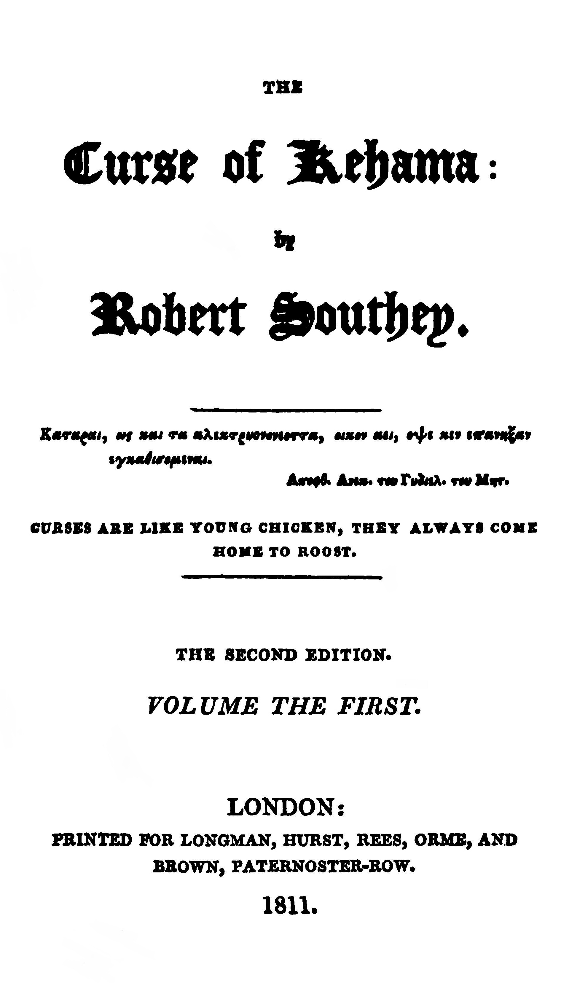 Curse of Kehama 2nd ed title pg